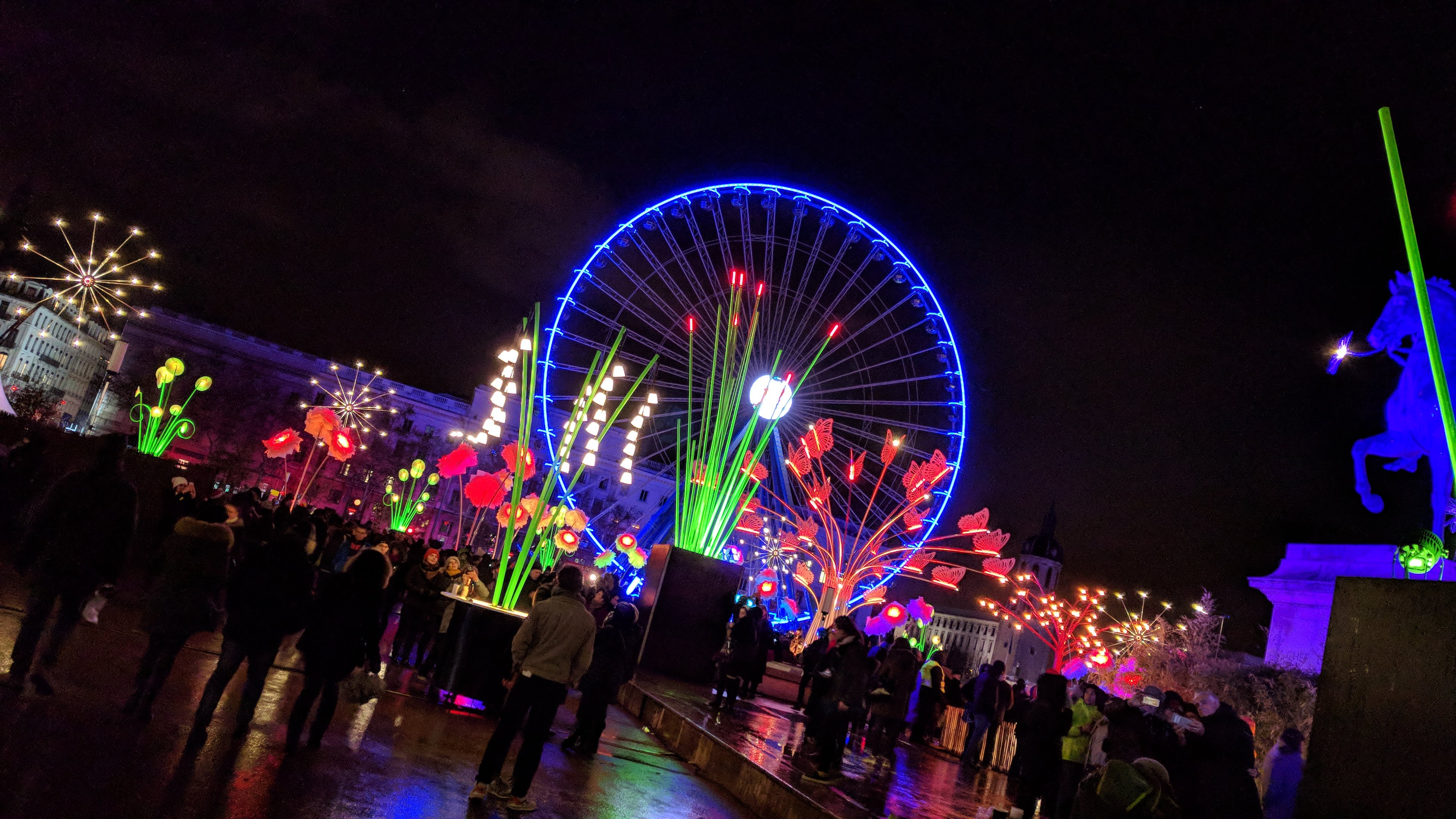 Fête des Lumières in Lyon, 2017